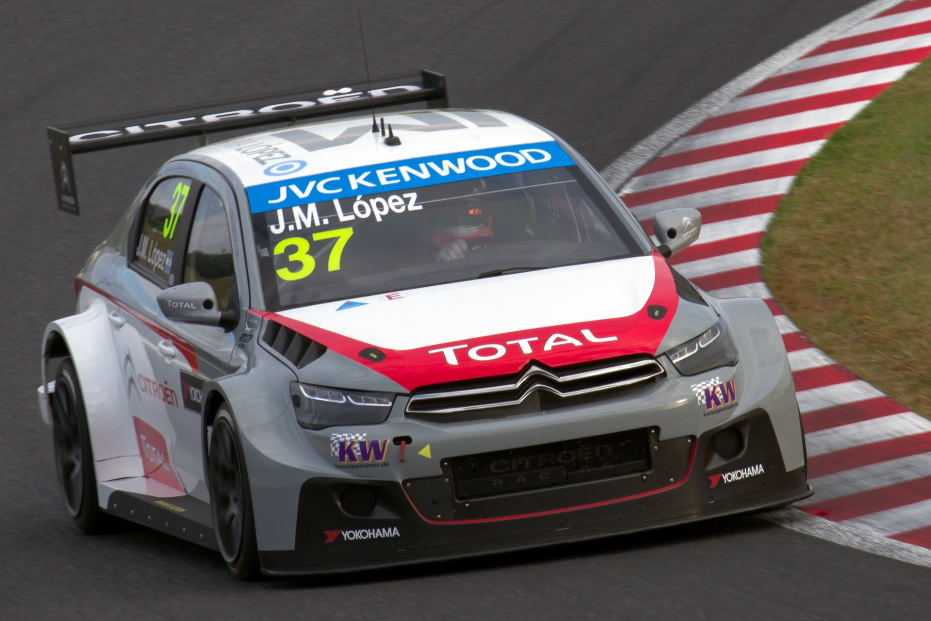 World Touring Car Championship 2014 Race of Japan: José María López (Citroën)